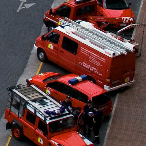 At one point we walked by a parking lot, which I took a picture of because I was like, "It's the Pope's parking lot!" :P The Vatican has its own post office, and apparently also its own fire department.